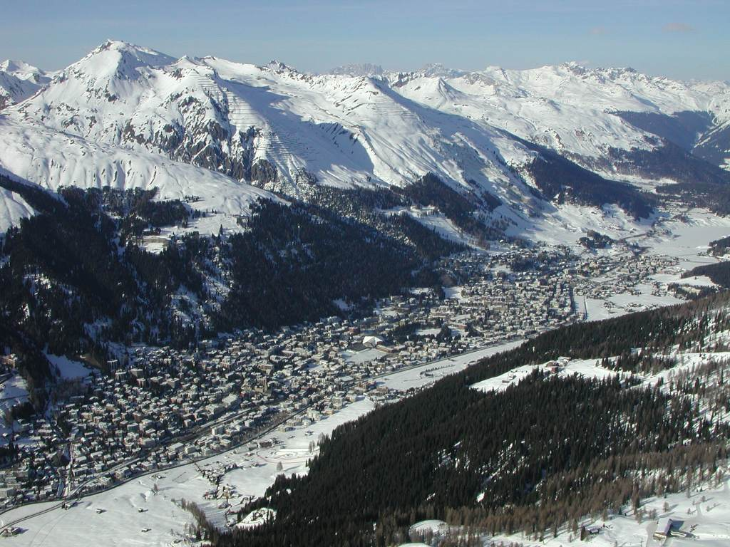 Davos in Switzerland - taken from paraglider